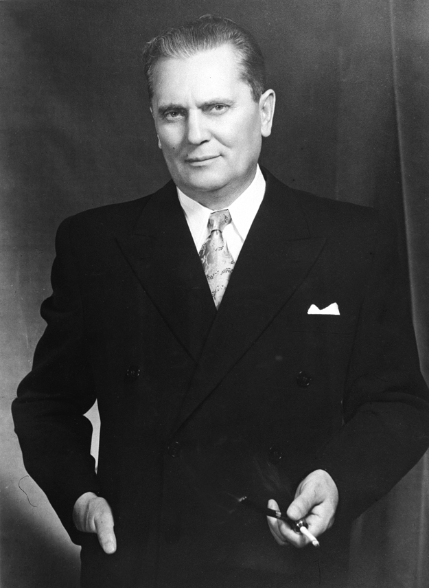 Yugoslav Emb./Dec.54,A32tH.E. Marshal Tito, the President of the Federal People’s Republic of Yugoslavia, who came to India on December 16, 1954.